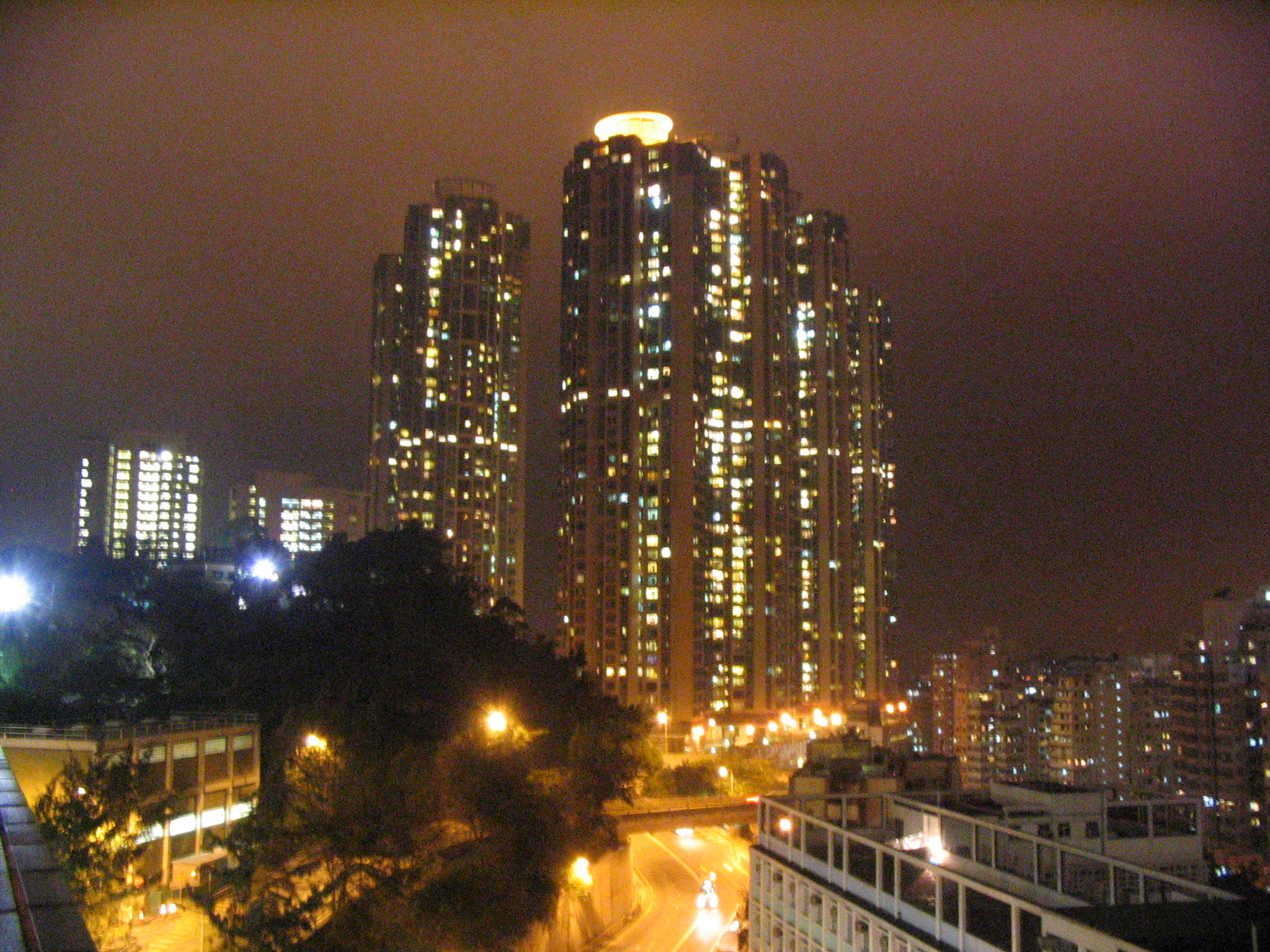 Photo of the Belcher's